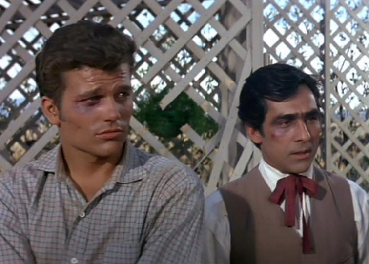 Patrick Wayne & Perry Lopez in McLintock! (cropped screenshot)